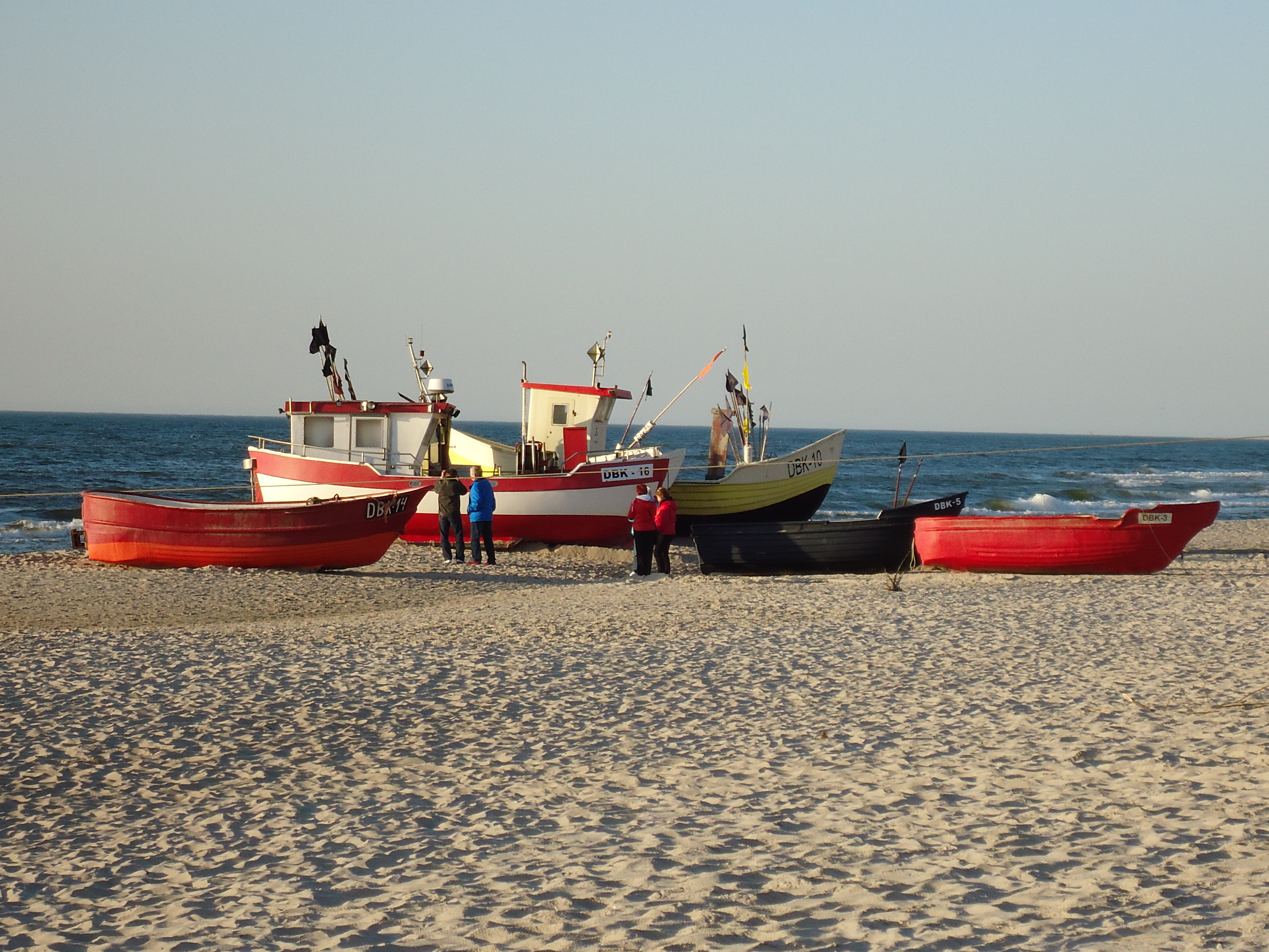 Dąbki (West Pomeranian) - fishing boats